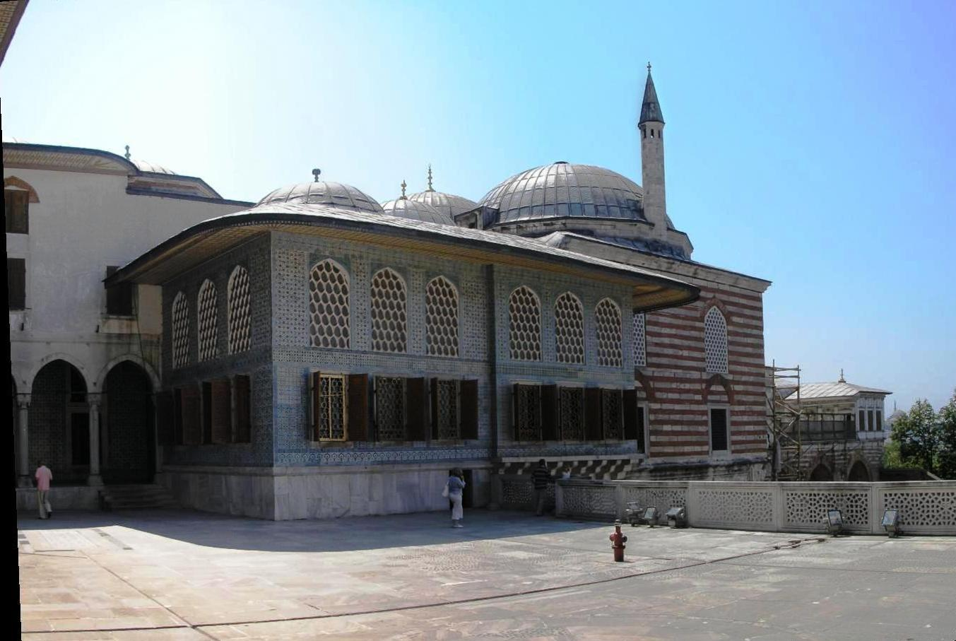 Outside view of the apartments of the crown prince, Topkapi Palace, Istanbul, as seen from the Concubine's courtyard.